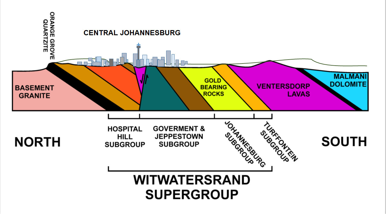 A NS cross section through the Witwatersrand ridge below the Johannesburg city center, showing the rocks that make up the Witwatersrand Supergroup.